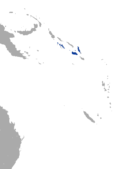 Dwarf Flying Fox (Pteropus woodfordi) range